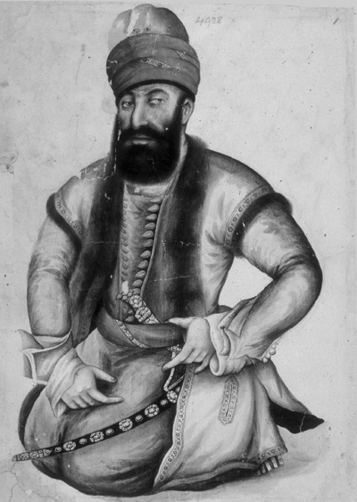 Karim Khan Zand